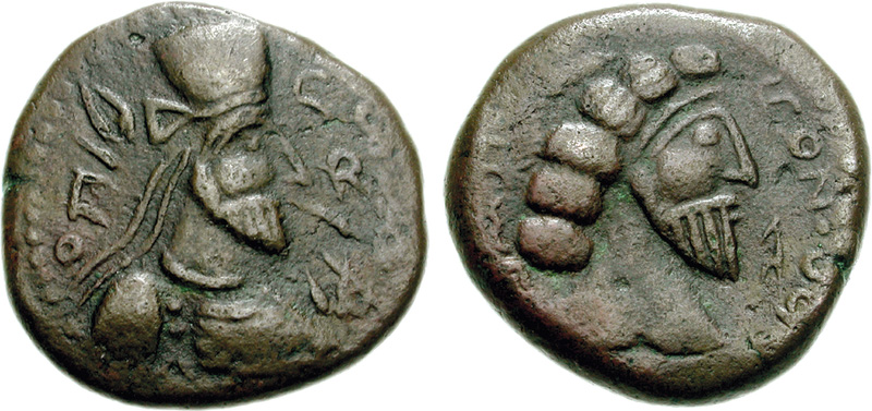 Coin of Maga, king of the Characene